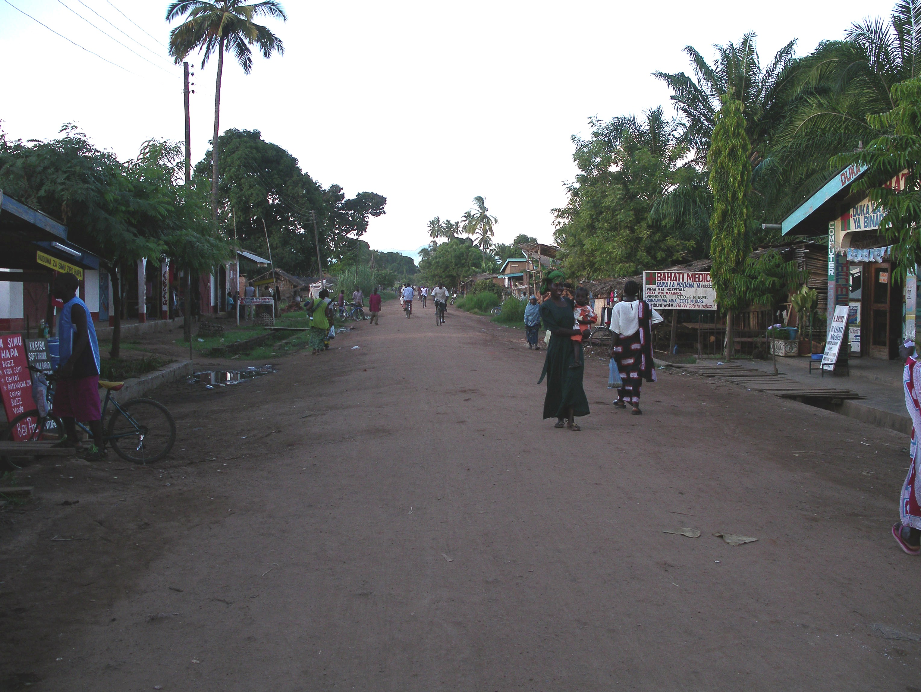 Side-street in Ifakara, Kilombero District, Tanzania